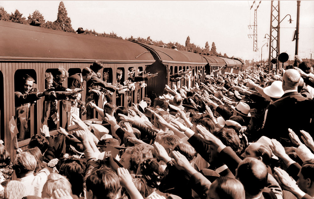 Free Corps Denmark leaving for the East Front from Hellerup Station, 1941